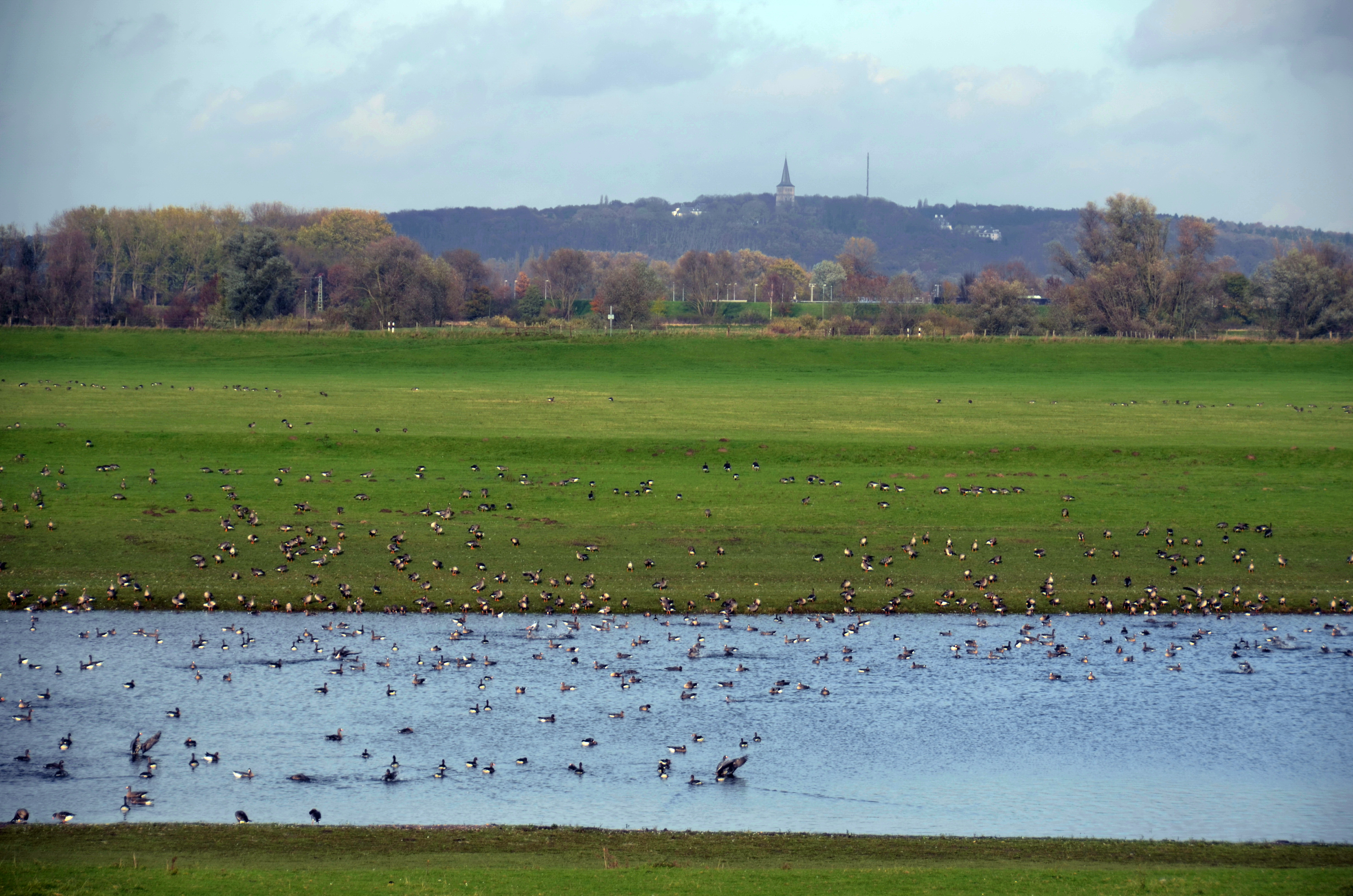 Goose along the old Rhine near Kleve, Griethauser Altrhein, with a view of Hochelten in the background